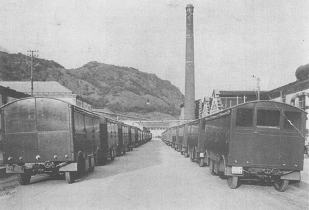 Italian military trucks